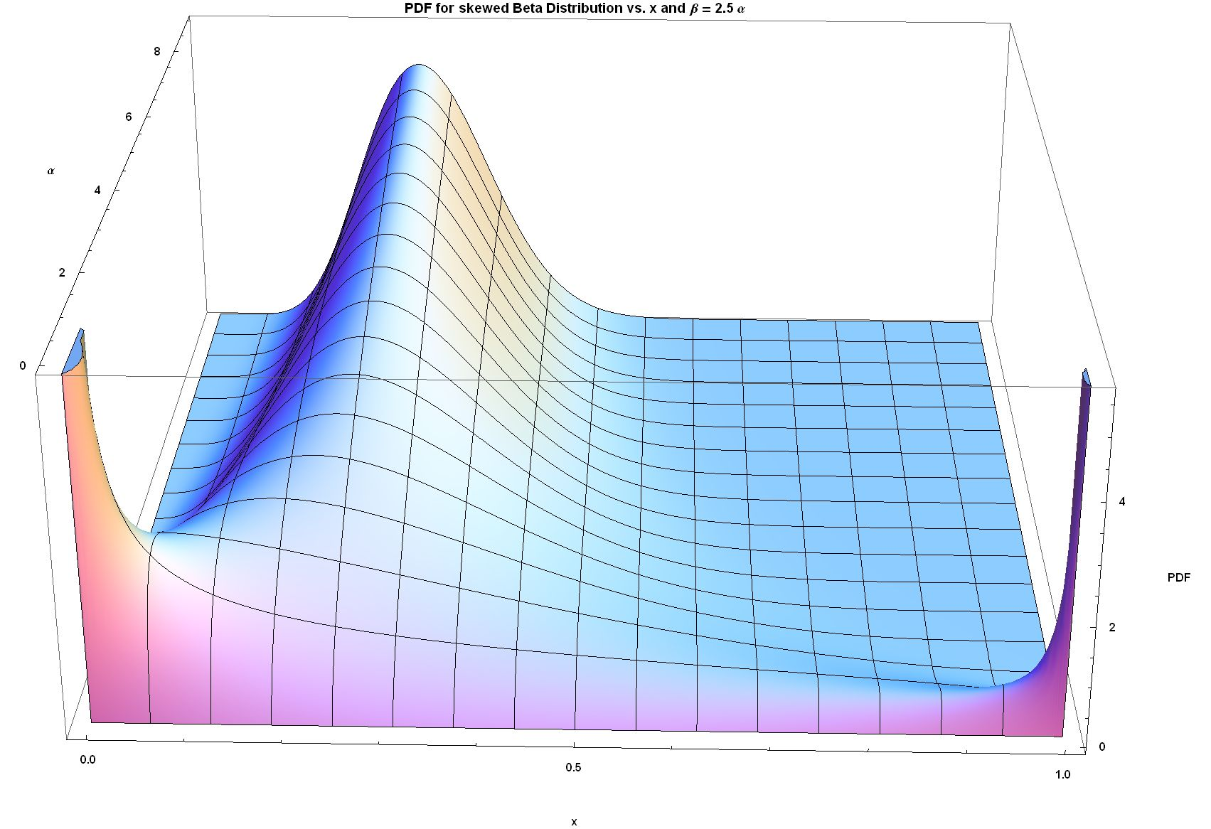 PDF for skewed beta distribution vs. x and beta= 2.5 alpha from 0 to 9 - J. Rodal